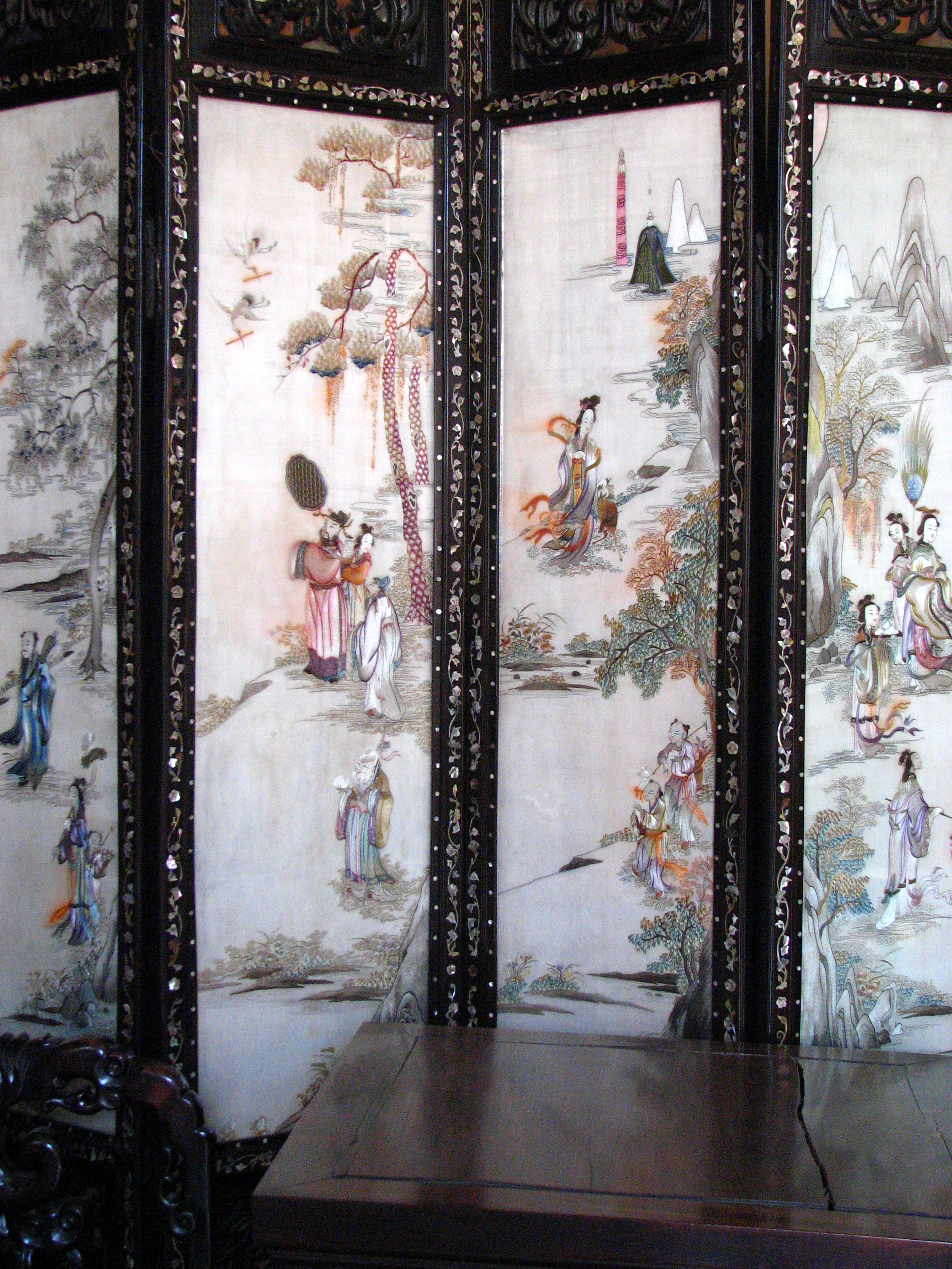 Saint Petersburg. Kunstkamera. Hall of China. Folding screen (the end of XIX century). 12 shutters of a screen are made of an ebony; furnish by incrustation. Silk panels — an embroidery on plots of the classical Chinese literature.